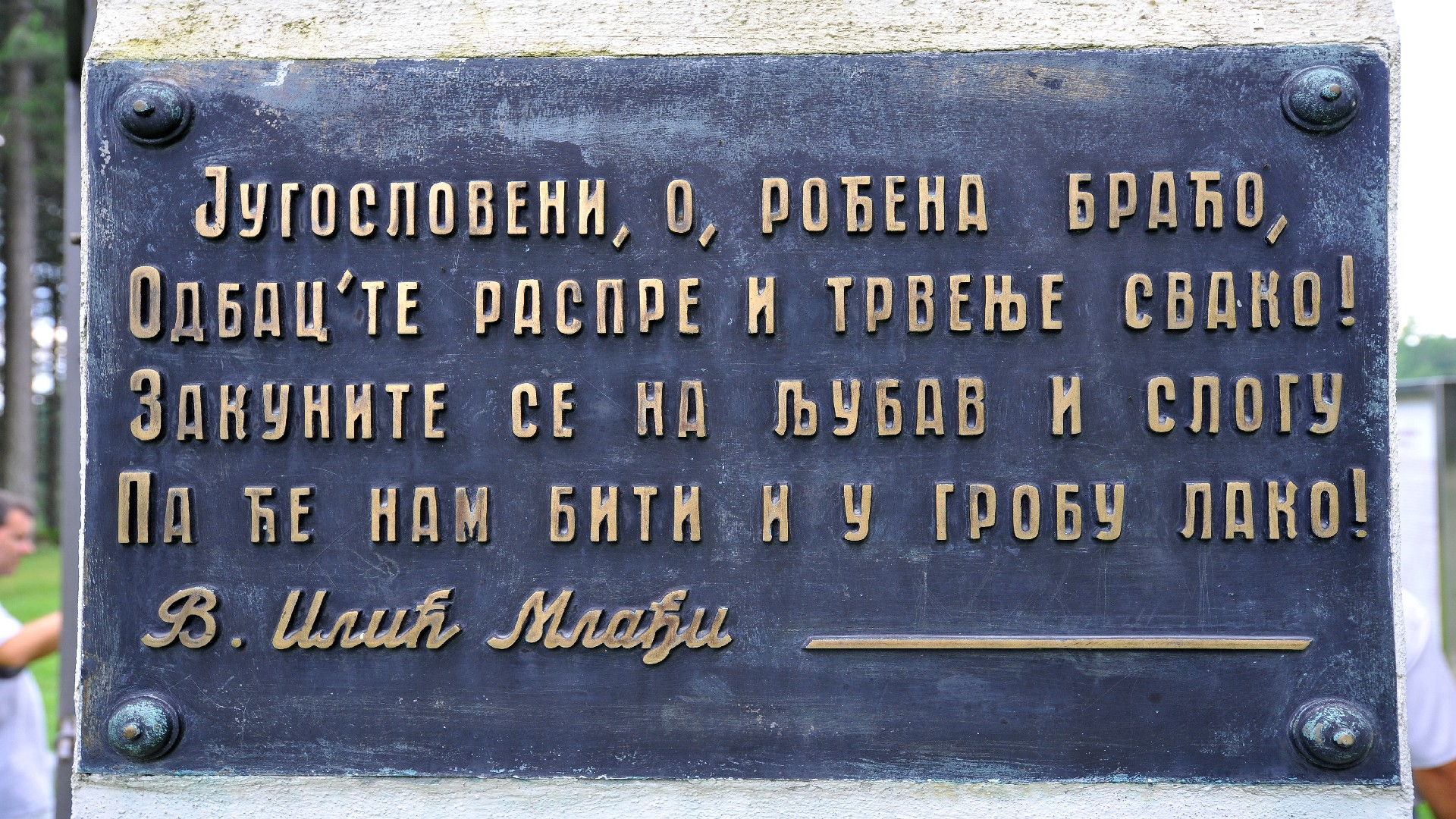 Board on entrance in memorial ossuary in complex Mačkov kamen